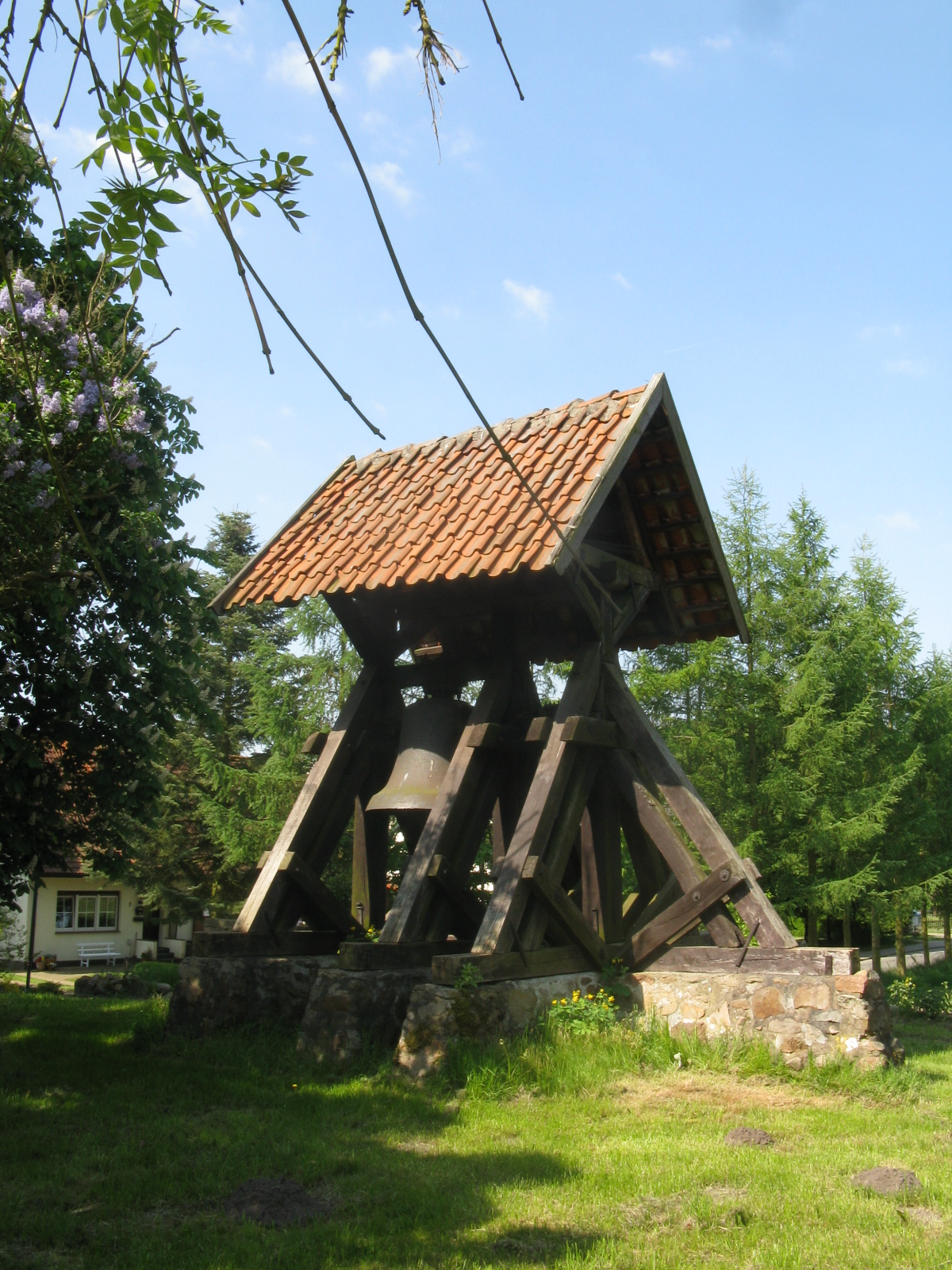 Wooden bell tower next to the church in Gammelin, district Ludwigslust-Parchim, Mecklenburg-Vorpommern, Germany